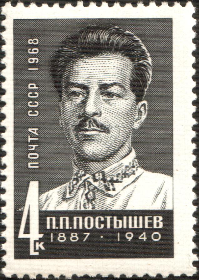 USSR stamp: Second Secretary of the Central Committee of the Communist Party of Ukraine Pavel Postyshev (1887–1939). Series: Honouring Outstanding Workers for the Communist Party and the Soviet State